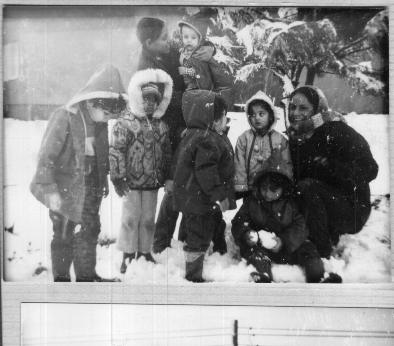 Geography of the Golan Heights